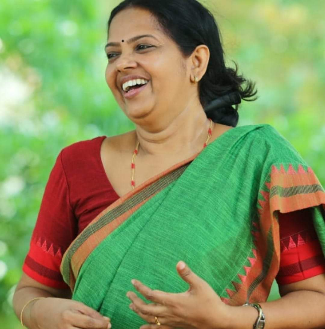 Author muse mary George